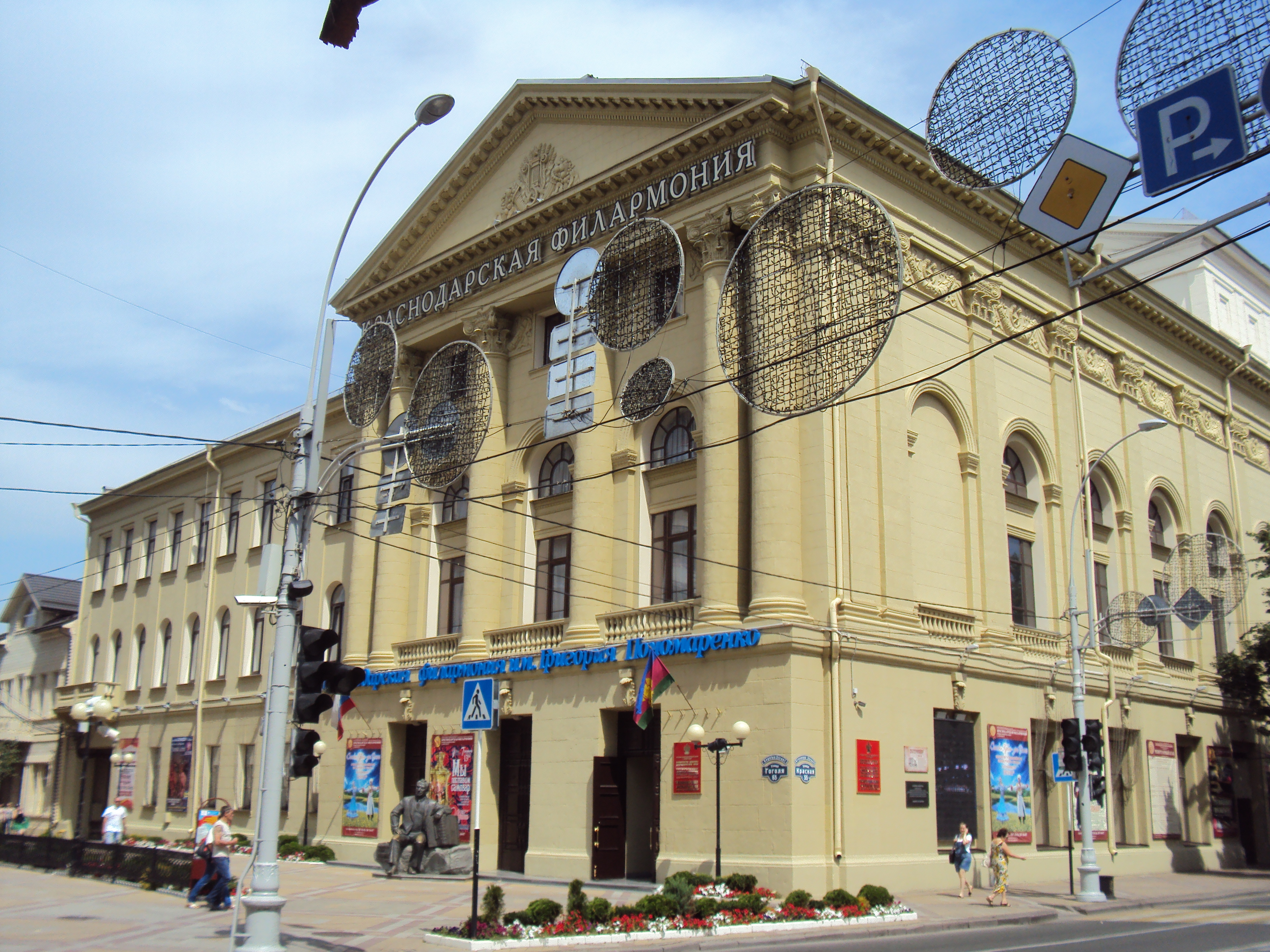 winter theatre